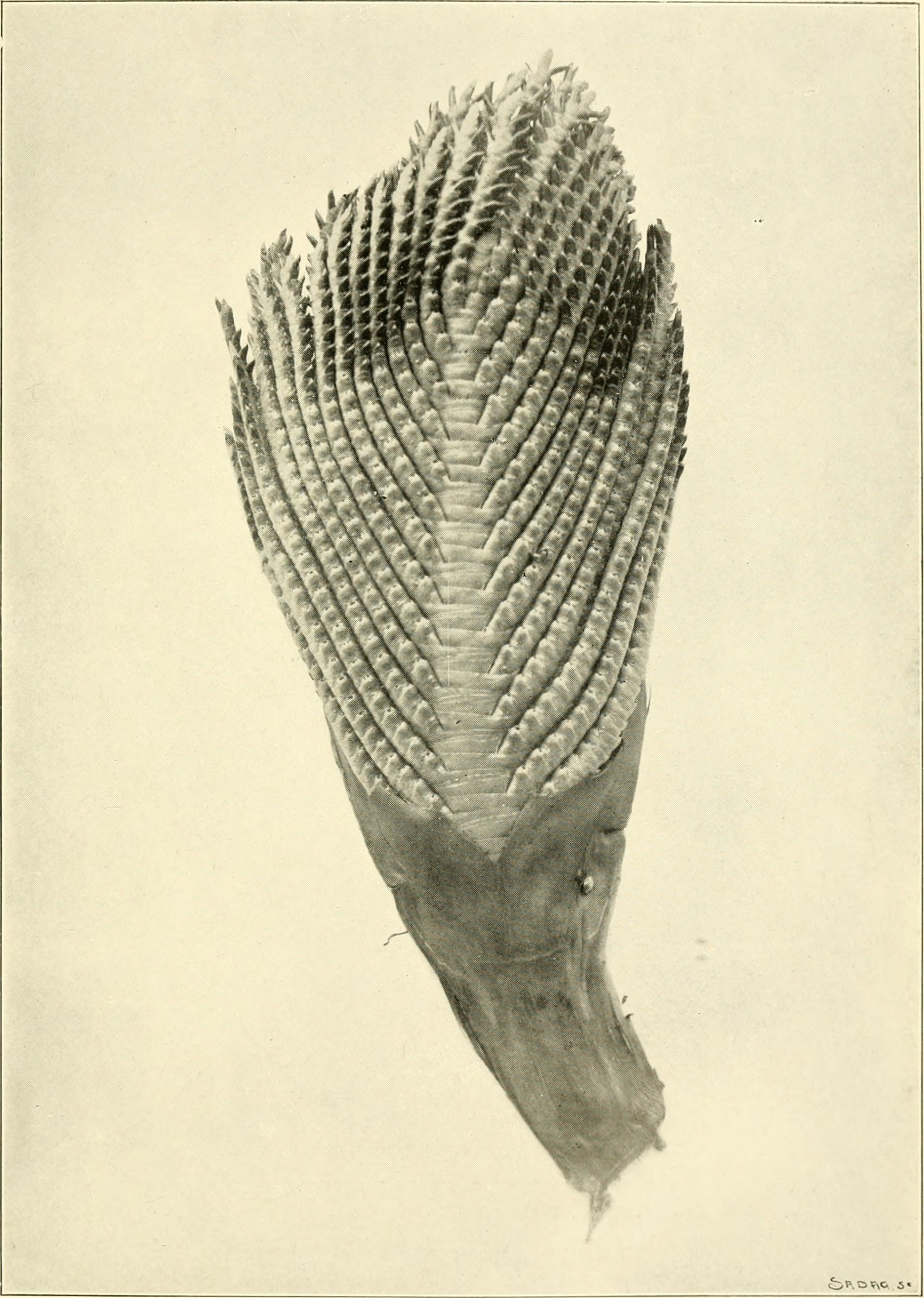 Title: Annales du Muse colonial de Marseille Year: 1907-1954 (1900s) Authors: Muse colonial de Marseille Subjects: Plants -- Madagascar; Tropical plants Publisher: Marseille : Muse colonial Text Appearing Before Image: Annales du Musée colonial de Marseille 3e série. lPr volume 1913. Paye 85. Text Appearing After Image: PI. XLIII. Grappe flabelliforme d'une inflorescence de Raphia Ruffia Pal. Beauv. Chaque épi porte dans sa partie supérieure des fleurs mâles saillantes et dans sa partie inférieure des fleurs femelles à pétales non proéminents).